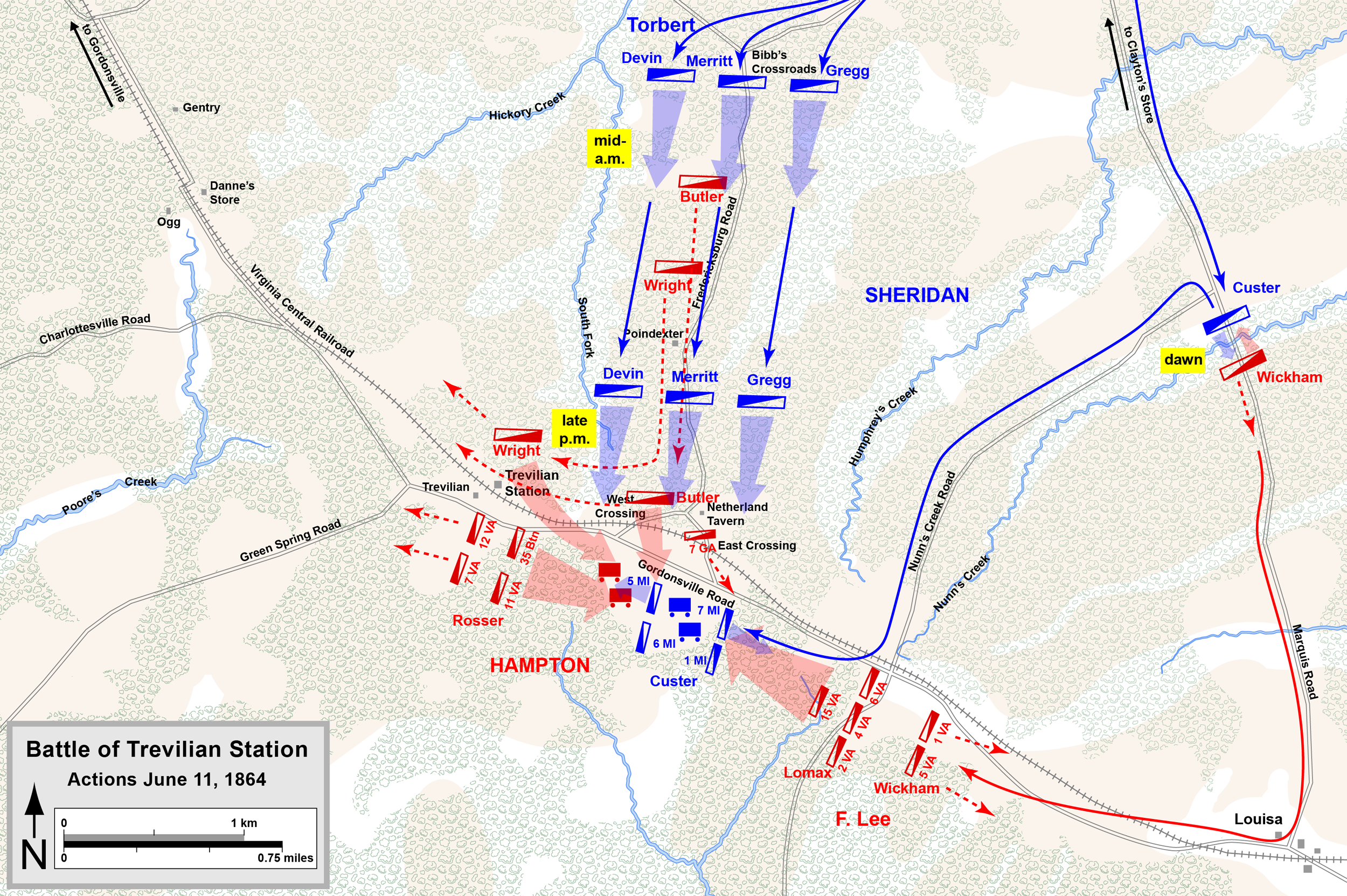 Map of the first day of the Battle of Trevilian Station of the American Civil War, drawn in Adobe Illustrator CS5 by Hal Jespersen. Graphic source file is available at